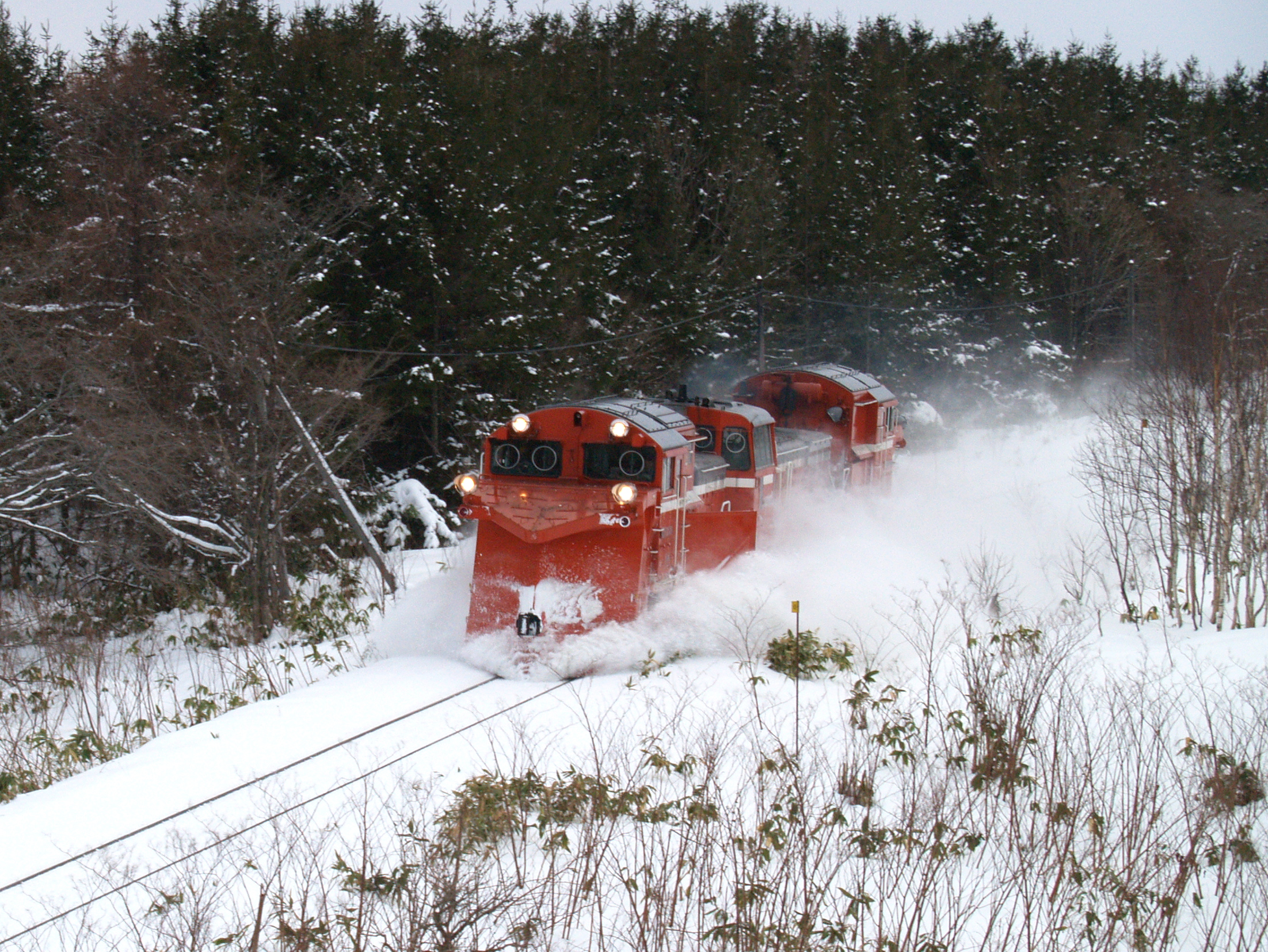 A Class DE15 diesel snowplow unit in operation in Hokkaido